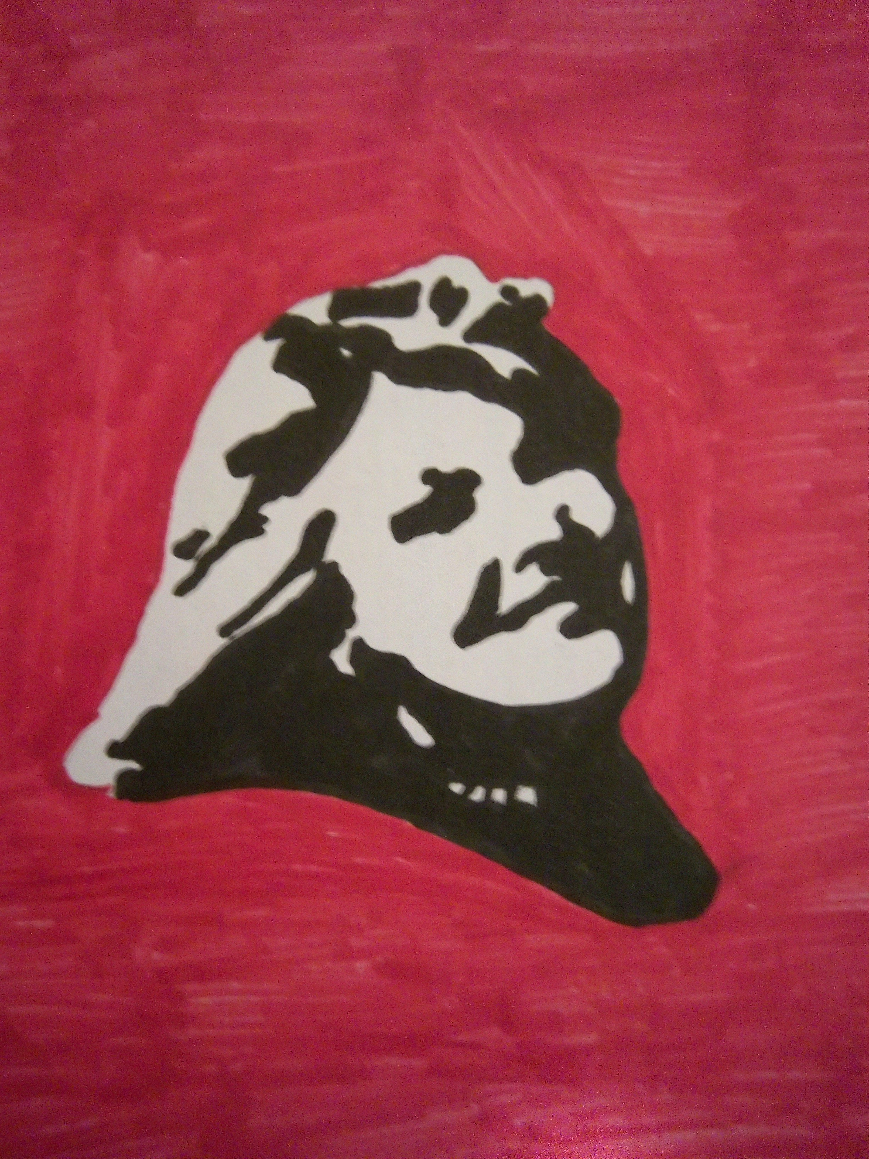 Hanka Paldum (born April 28, 1956) is a popular Bosniak folk and sevdah singer. Author-Mirko Savković (MirkoS18 at wiki)